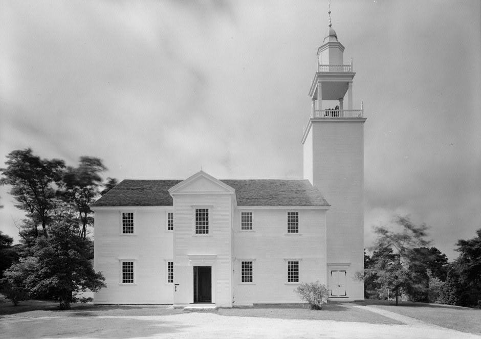 Photographic view from the south east of West Parish Congregational Church, State Route 19, Barnstable, Barnstable County, Massachusetts